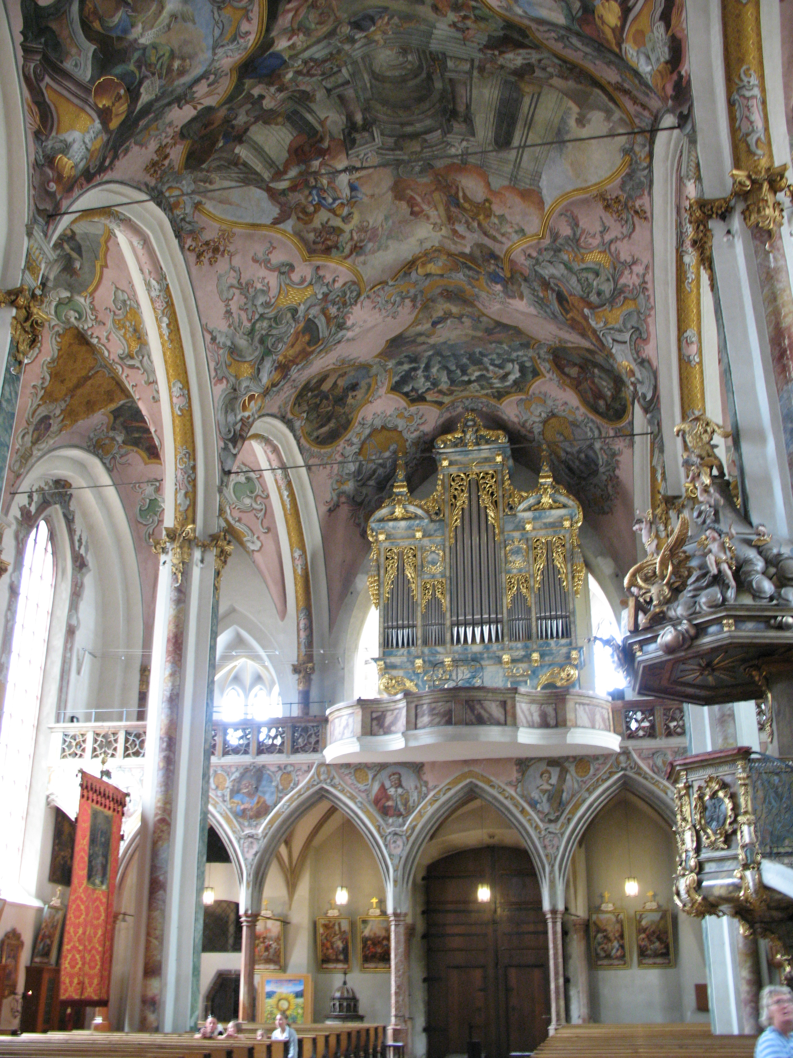 City Parish Church of Saint Nicholaus, Hall in Tirol, Austria